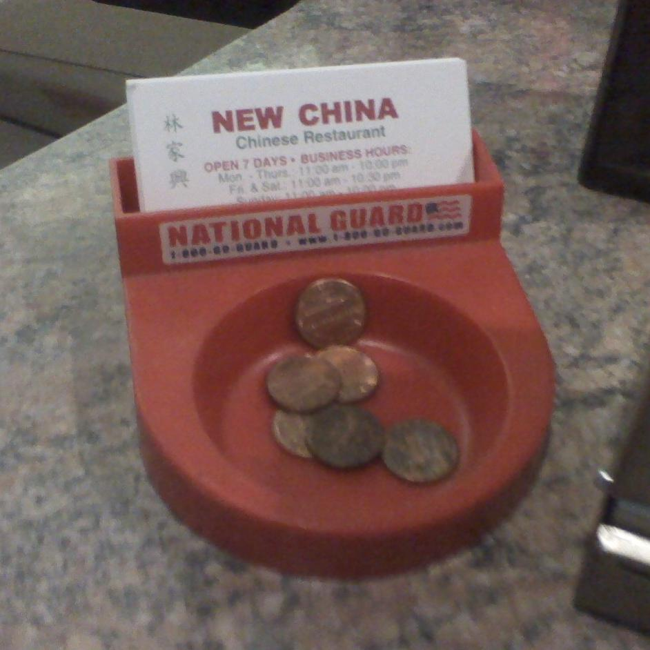 A penny tray on a counter in a Chinese restaurant